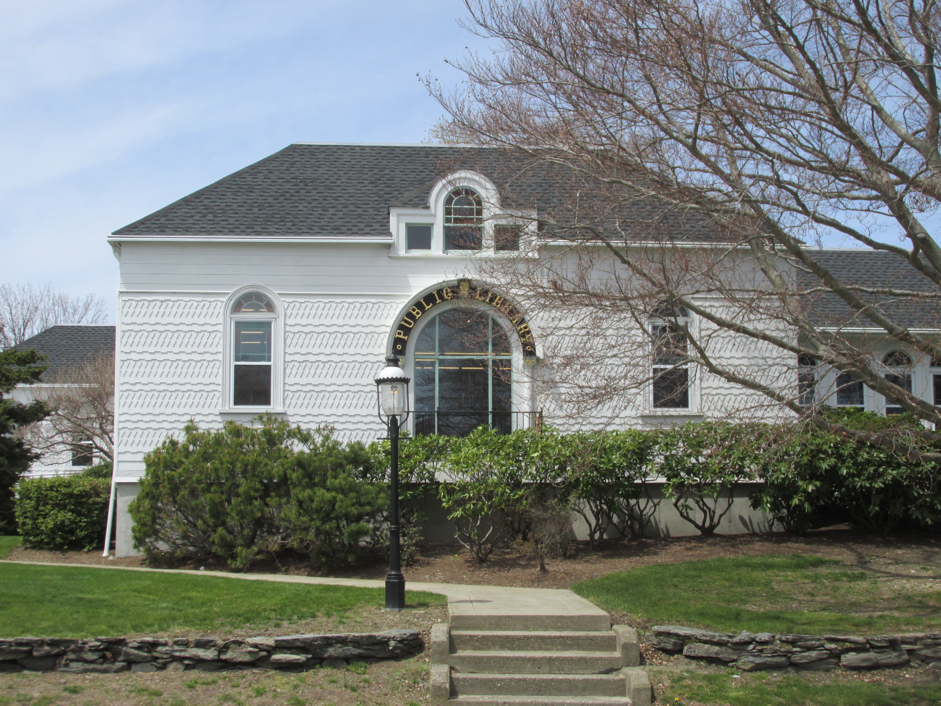 Public Library, Portsmouth Rhode Island - 2014